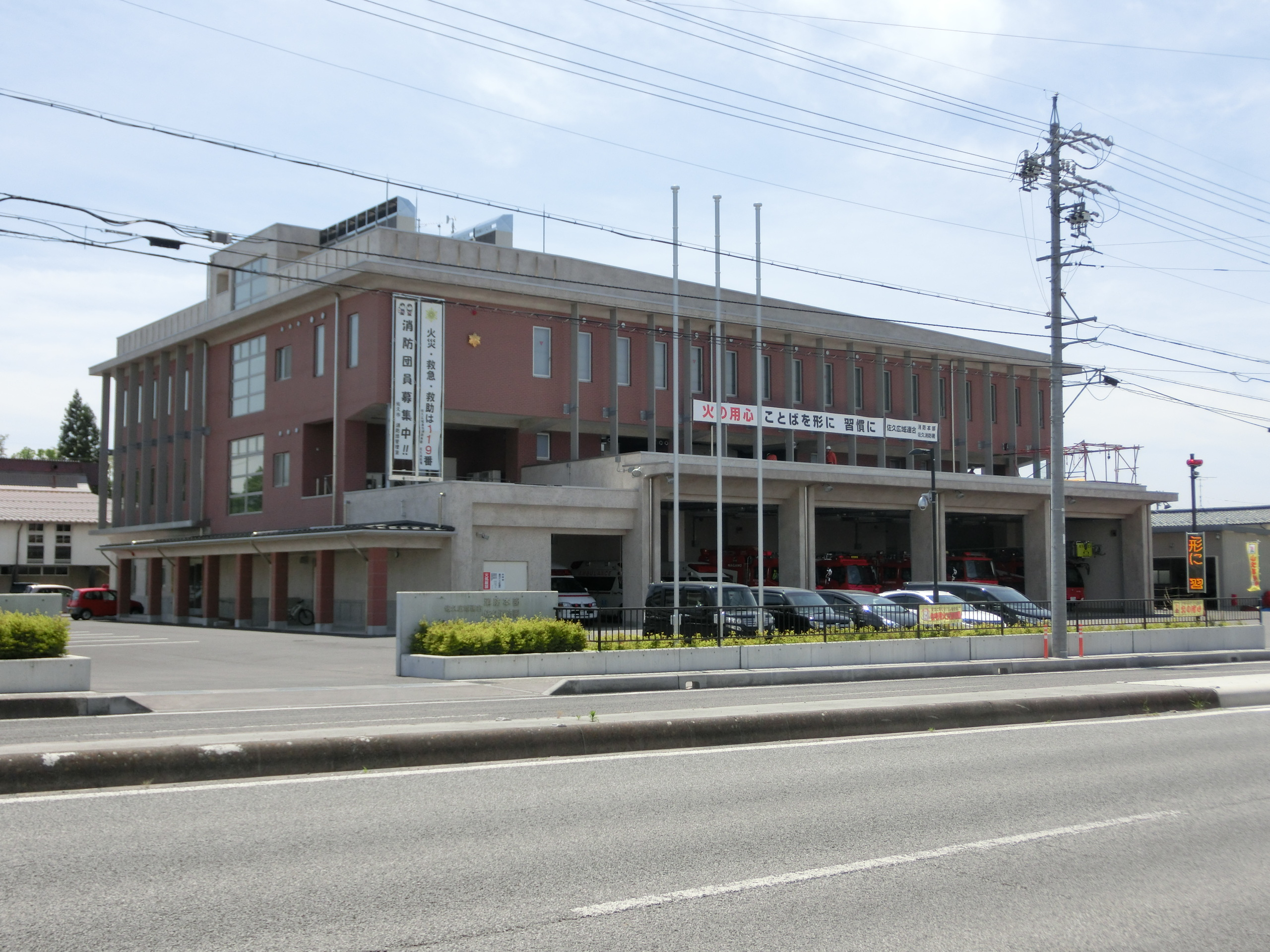 Saku Large Area Fire Department